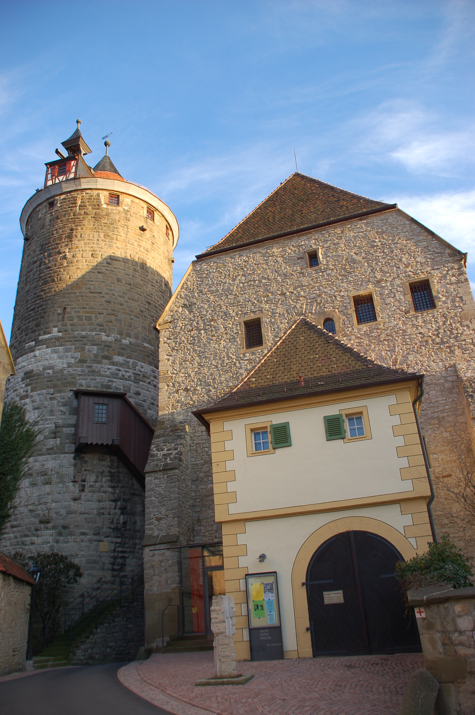 The Schochenturm (Schochen tower) in Besigheim